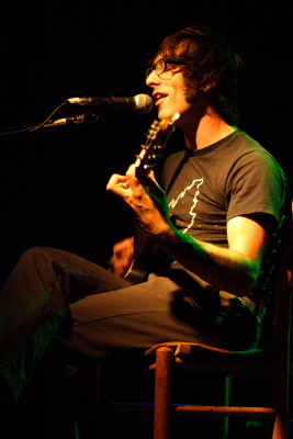 TTs_090107_0035